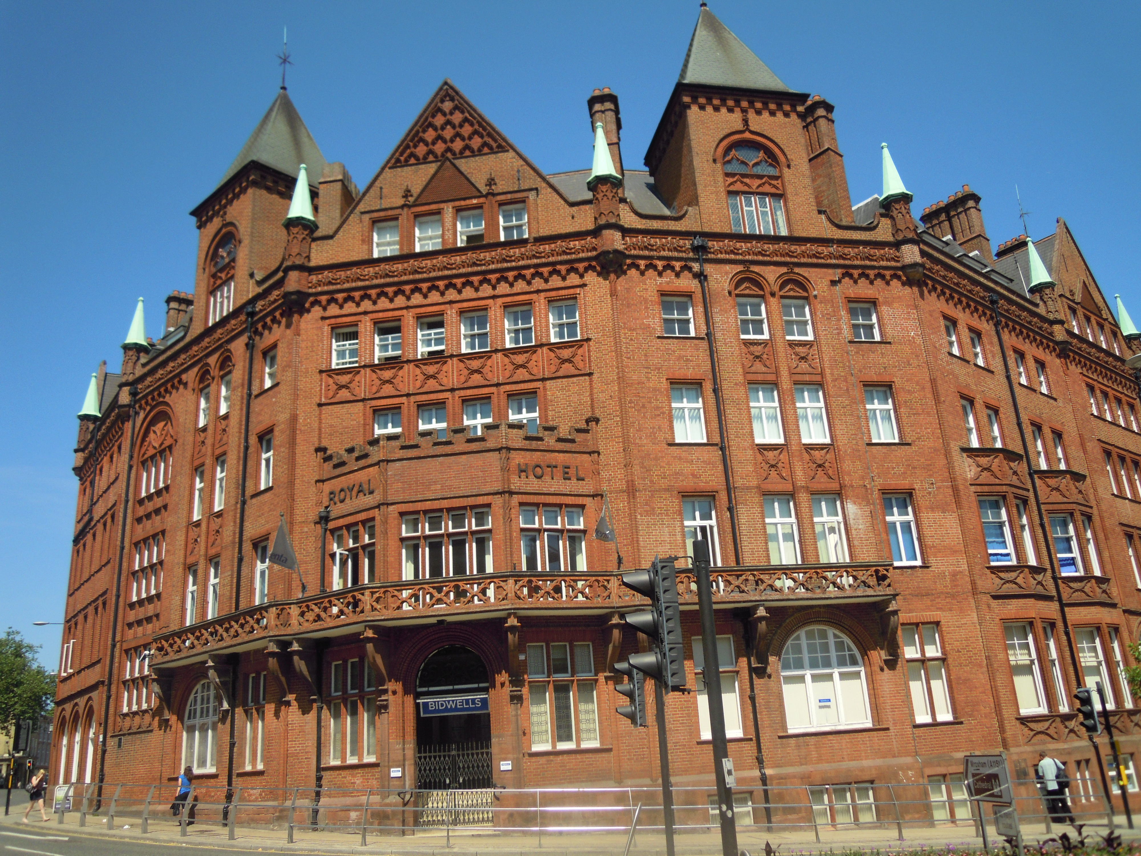 The Former Royal Hotel in the city of Norwich, Norfolk, United Kingdom